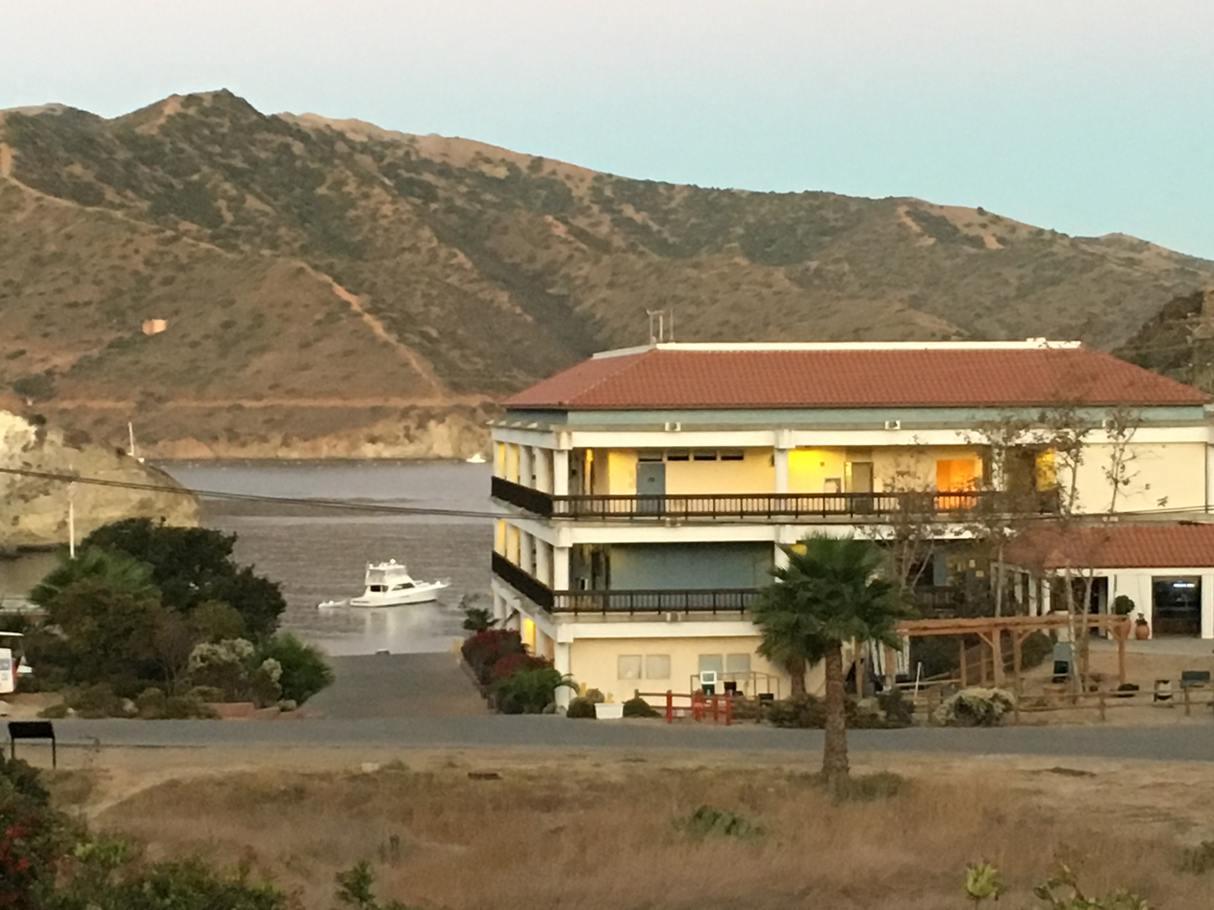 Sunrise view of the lab and Big Fisherman's Cove from the Boone Center.